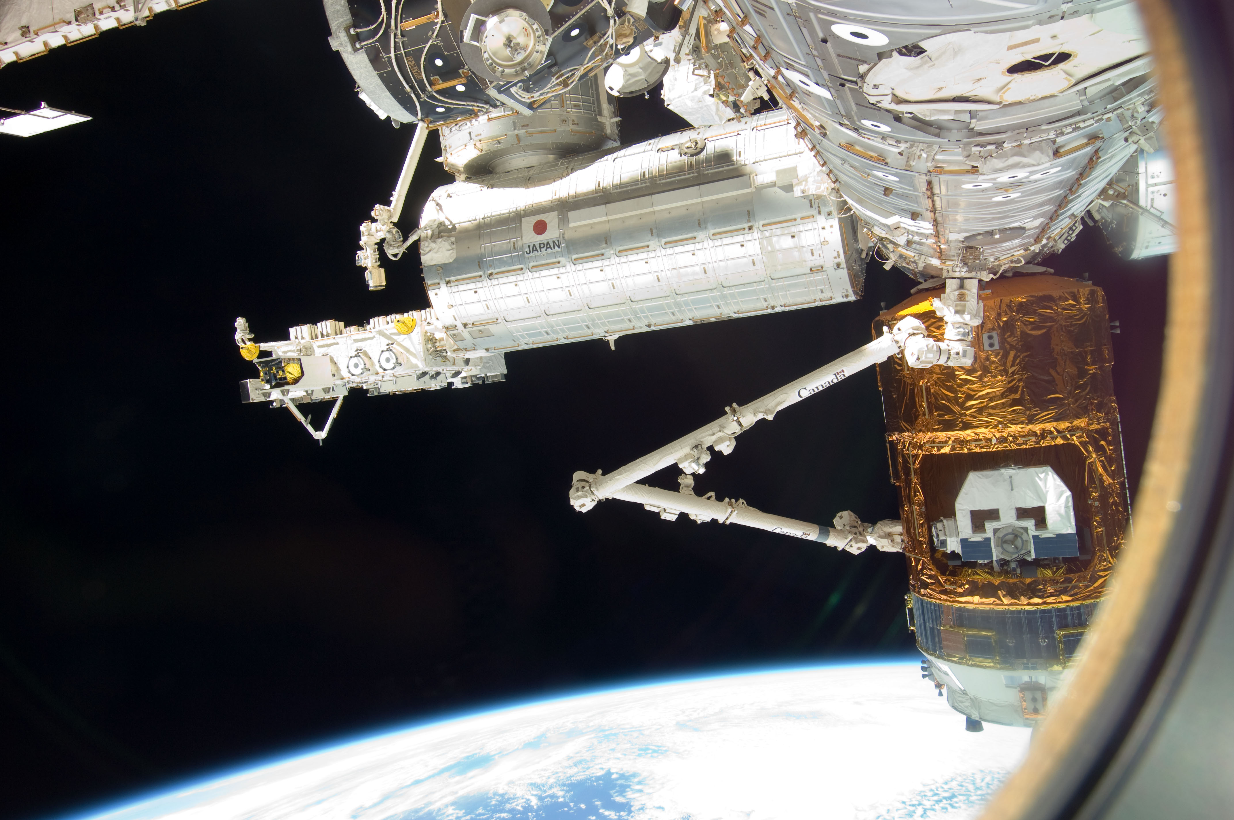 Backdropped by Earth's horizon and the blackness of space, the International Space Station's Canadarm2 grapples the unpiloted Japanese H-II Transfer Vehicle (HTV) in preparation for its release from the station. European Space Agency astronaut Frank De Winne, Expedition 21 commander; NASA astronaut Nicole Stott and Canadian Space Agency astronaut Robert Thirsk, both flight engineers, used the station's robotic arm to grab the HTV cargo craft, filled with trash and unneeded items, and unberth it from the Harmony node's nadir port. The HTV was successfully unberthed at 10:18 a.m. (CDT) on Oct. 30, 2009, and released from the station's Canadarm2 at 12:32 p.m.